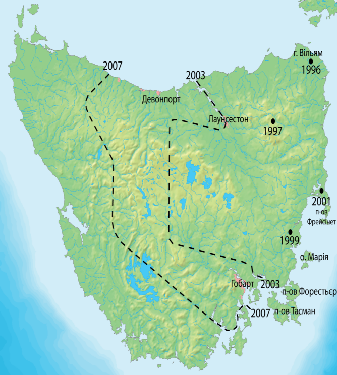 The spread of Devil Facial Tumour Disease (DFTD) on the island of Tasmania, indicated some cases until 2001 and the limits of dissemination in 2003 and 2007